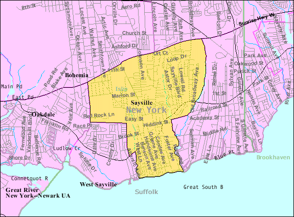 U.S. Census 2000 reference map for Sayville